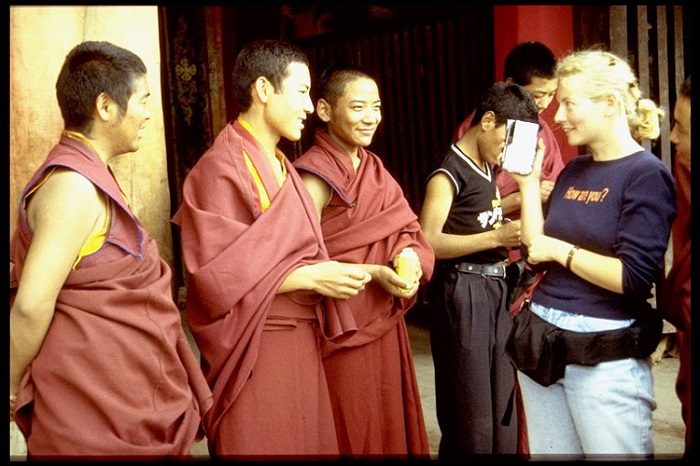 Tibet